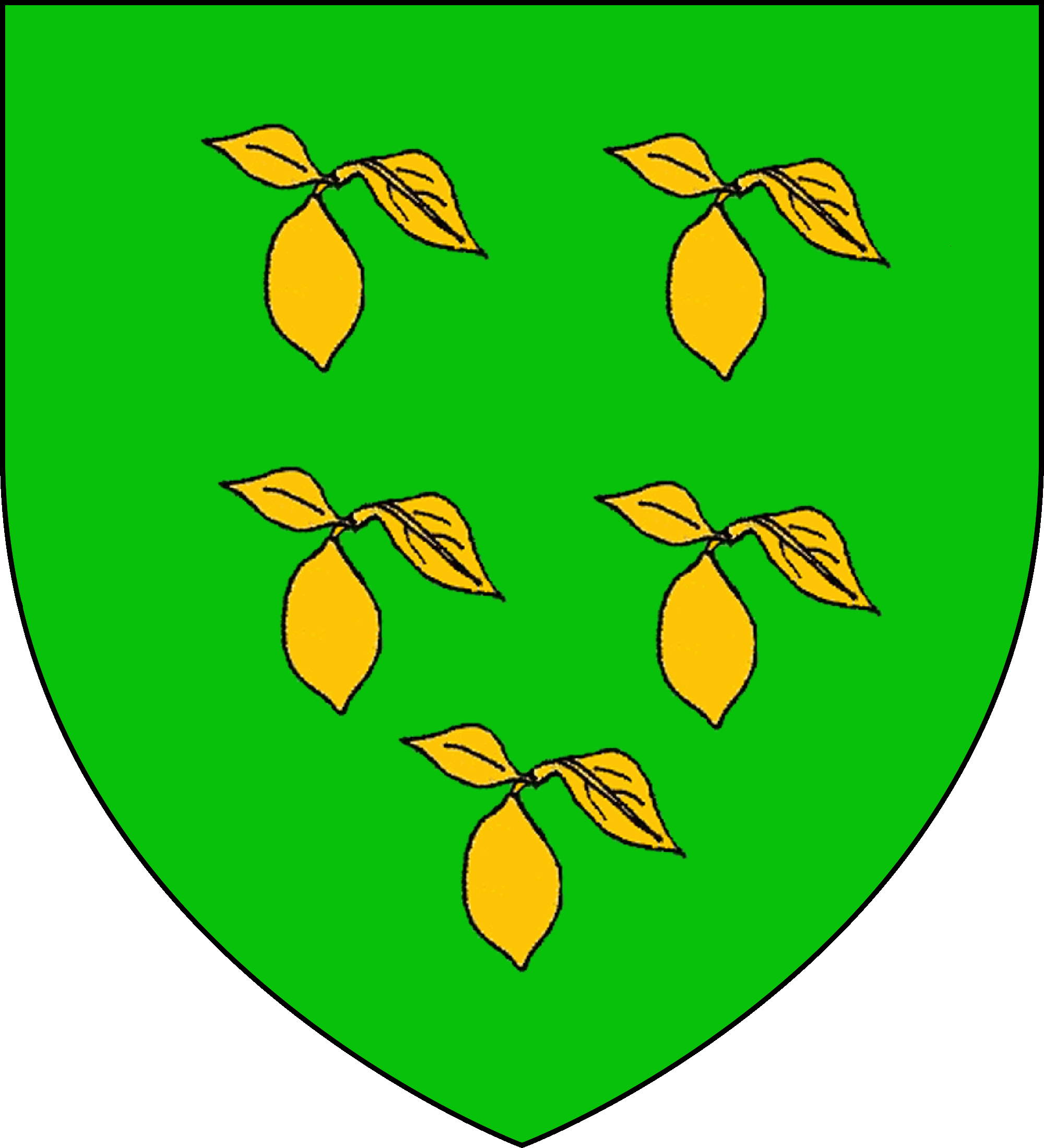 Escudo de armas de la Casa La Lumia. (Stemma dei La Lumia)